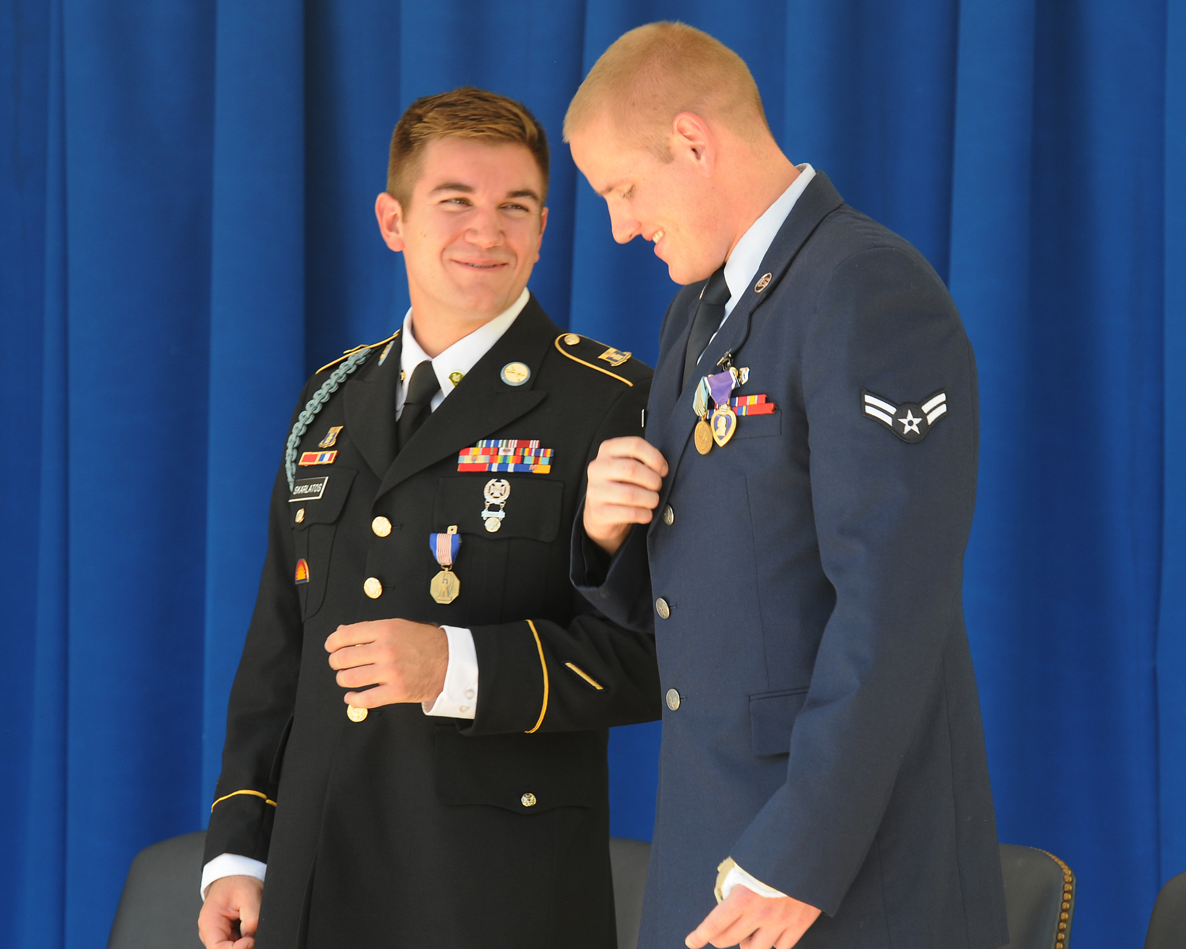 Defense Secretary Ash Carter awards the Soldier's Medal to Spc. Alek Skarlatos, Oregon National Guard, the Airman's Medal to Airman 1st Class Spencer Stone and the Defense Department Medal for Valor to Anthony Sadler, at a ceremony in the Pentagon courtyard Sept. 17, 2015. (U.S. Army National Guard photo by Staff Sgt. Michelle Gonzalez)(Released)